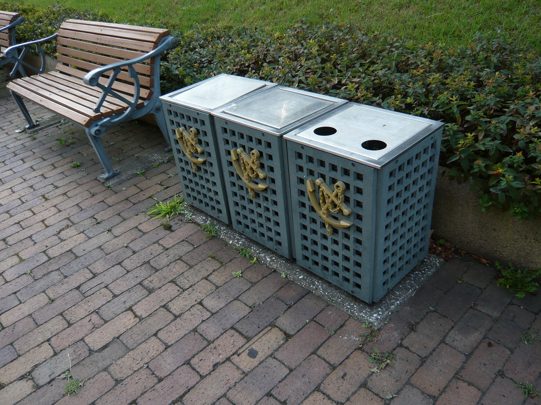 Garbage Can of Aomi Kita Port Park in Koto-ku, Tokyo, Japan.